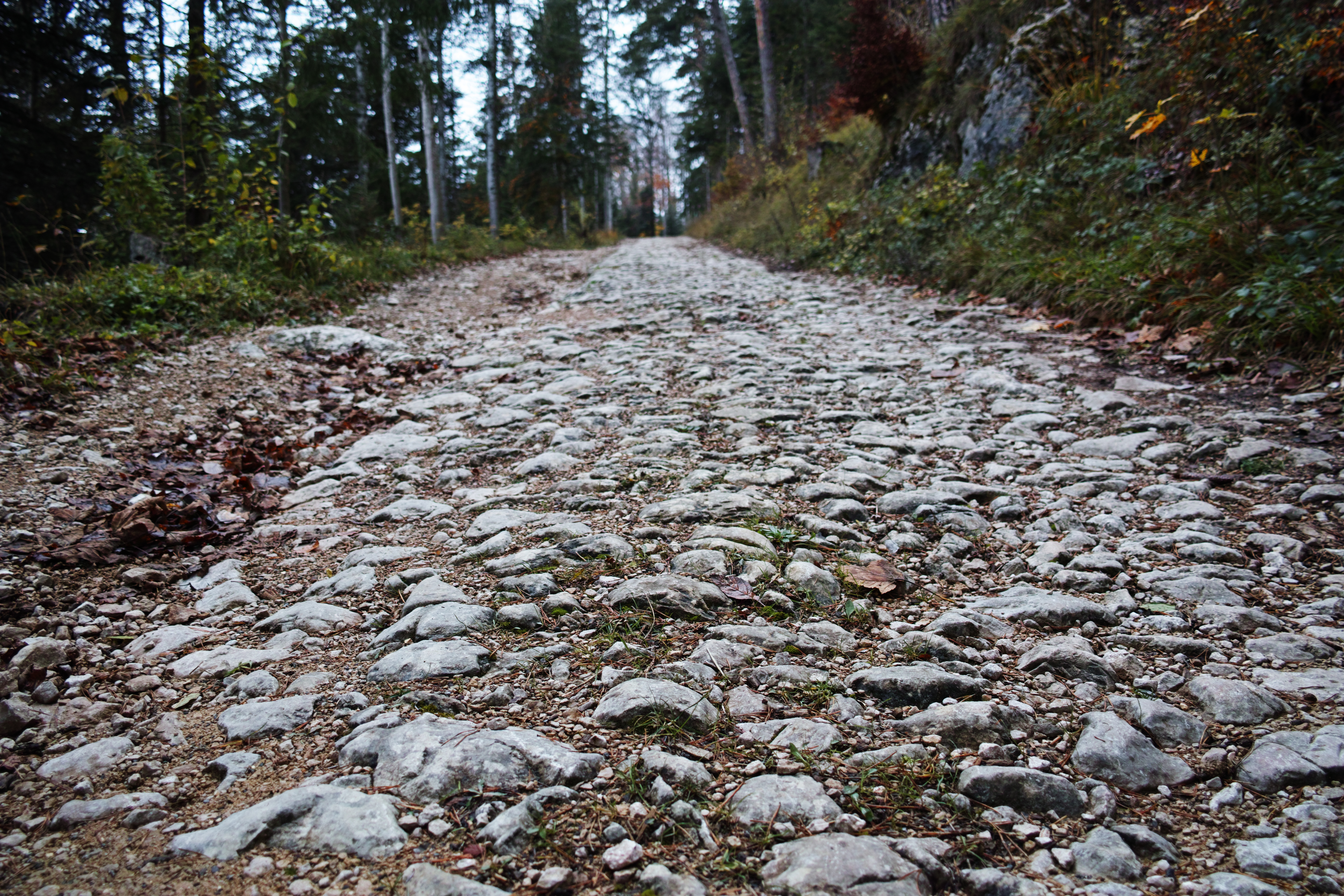 Part of the old Passwang road with old cobblestone pavement in the forest above Mümliswil, canton of Solothurn, Switzerland. The old Passwang road's course on the south side of the pass is east of the current road.